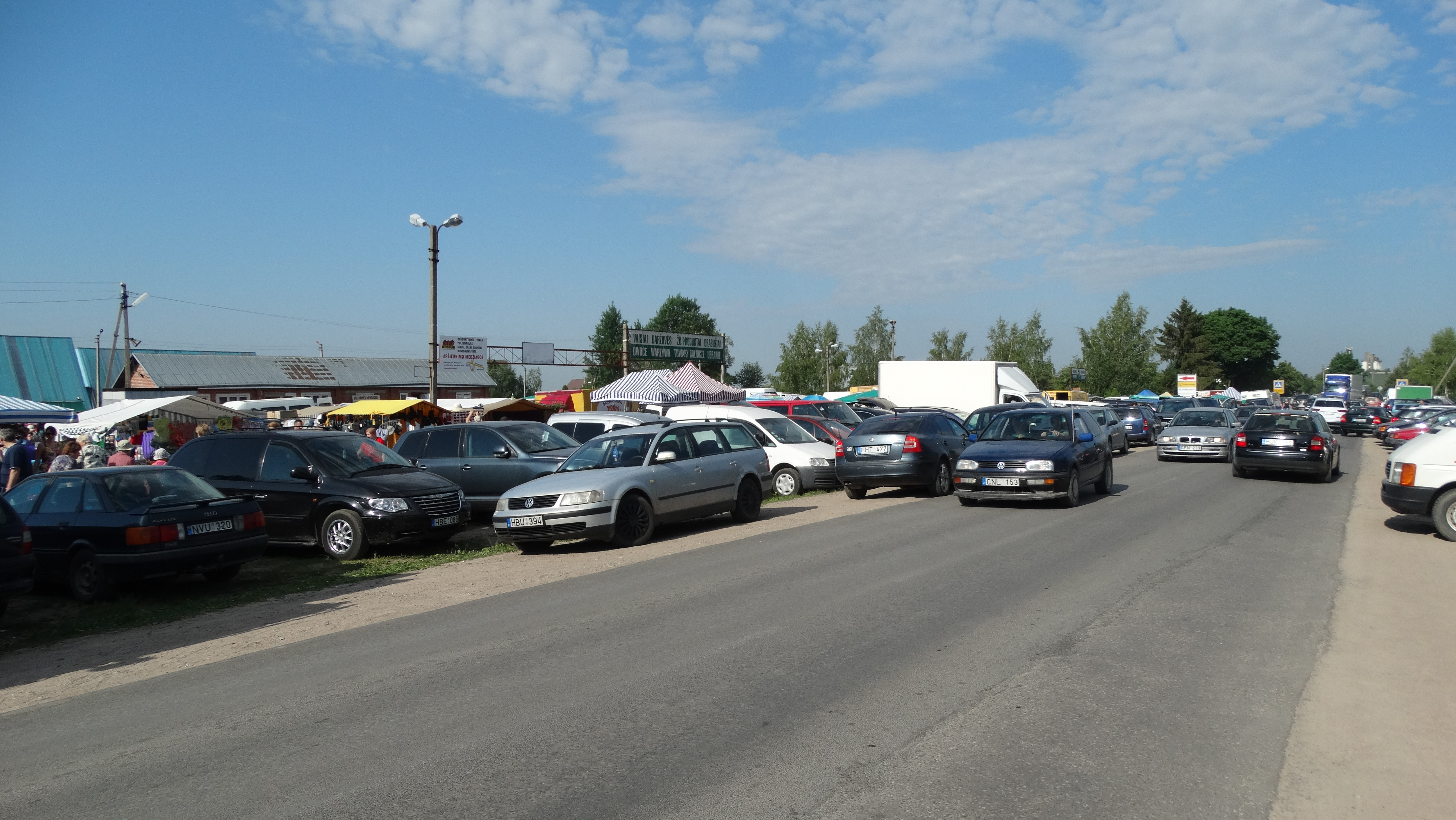 Rudamina, Vilnius District, Lithuania